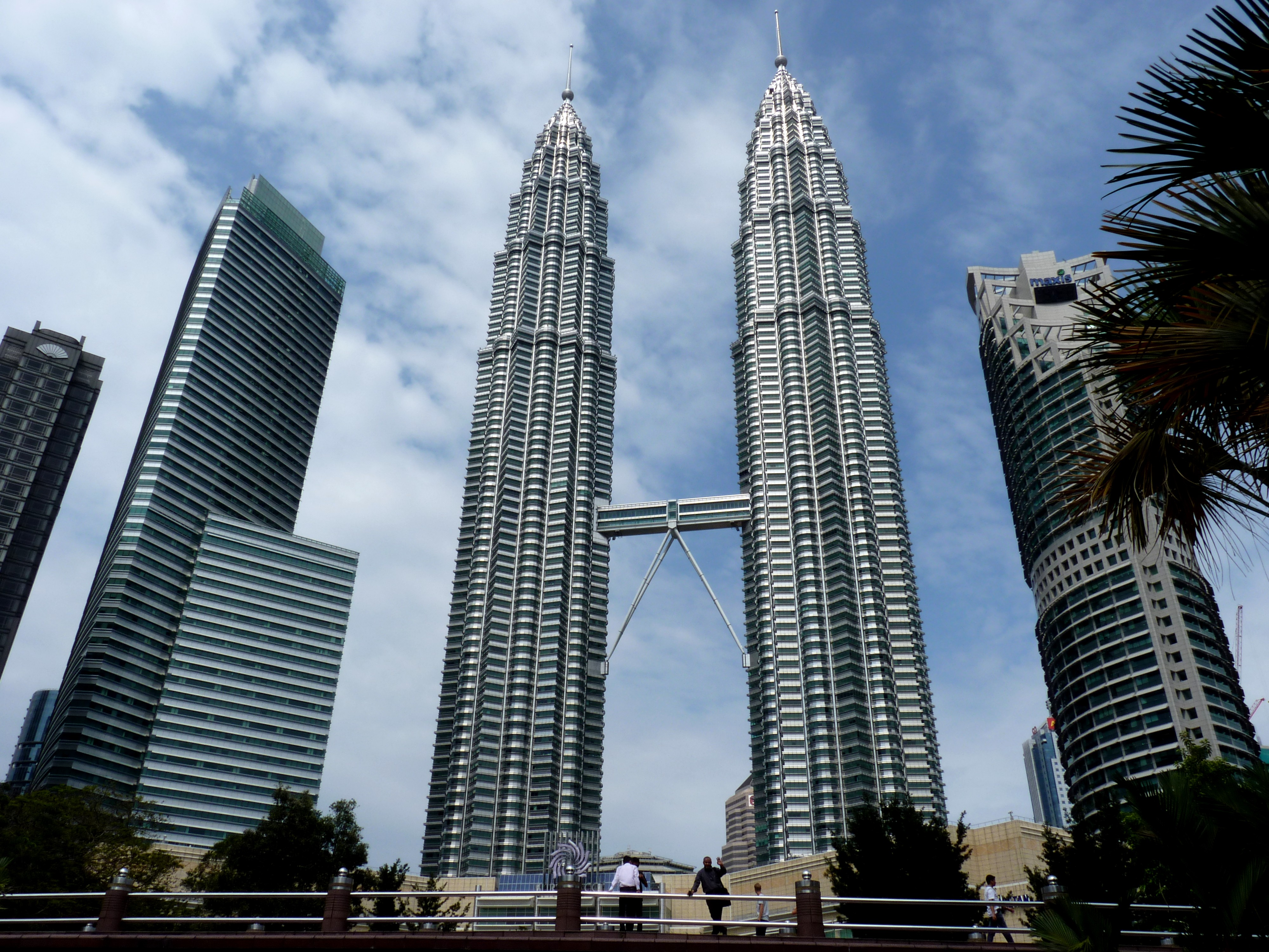 The Petronas Twin Towers in Kuala Lumpur (Malaysia)